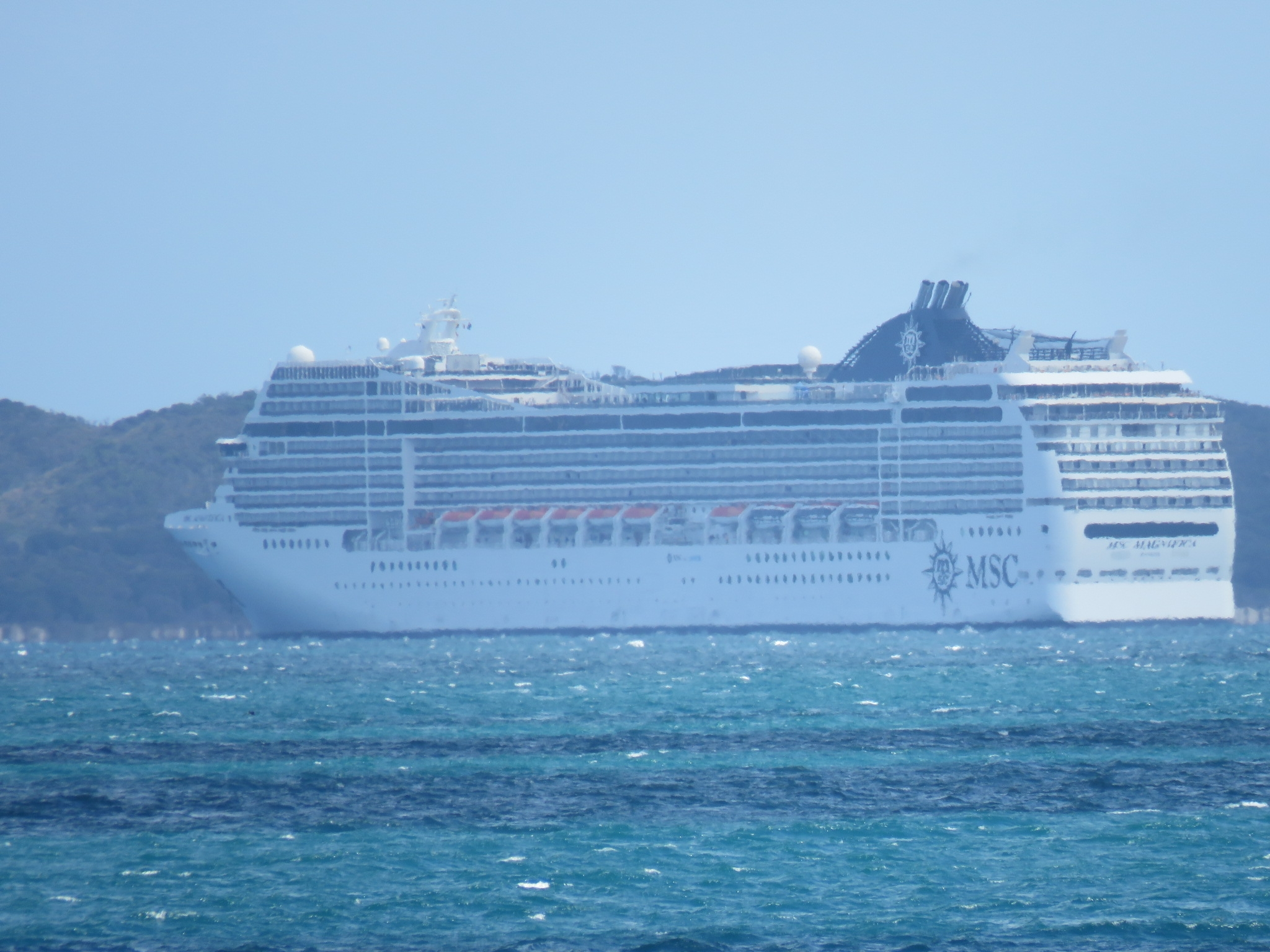 The cruise ship MSC Magnifica anchored at Garden Island, Western Australia.The ship was one of two cruise ships anchored in Cockburn Sound while a third one was anchored further north, closer to Fremantle. Because of the COVID-19 pandemic, the cruise ships were not permitted by the Western Australian government to dock in Fremantle.